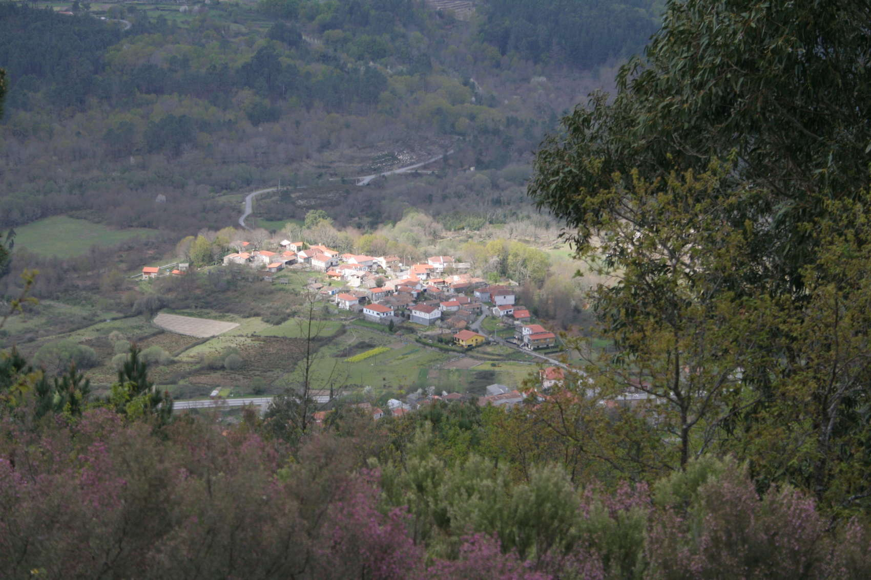 A Devesa, Río Caldo, Lobios (Spain)